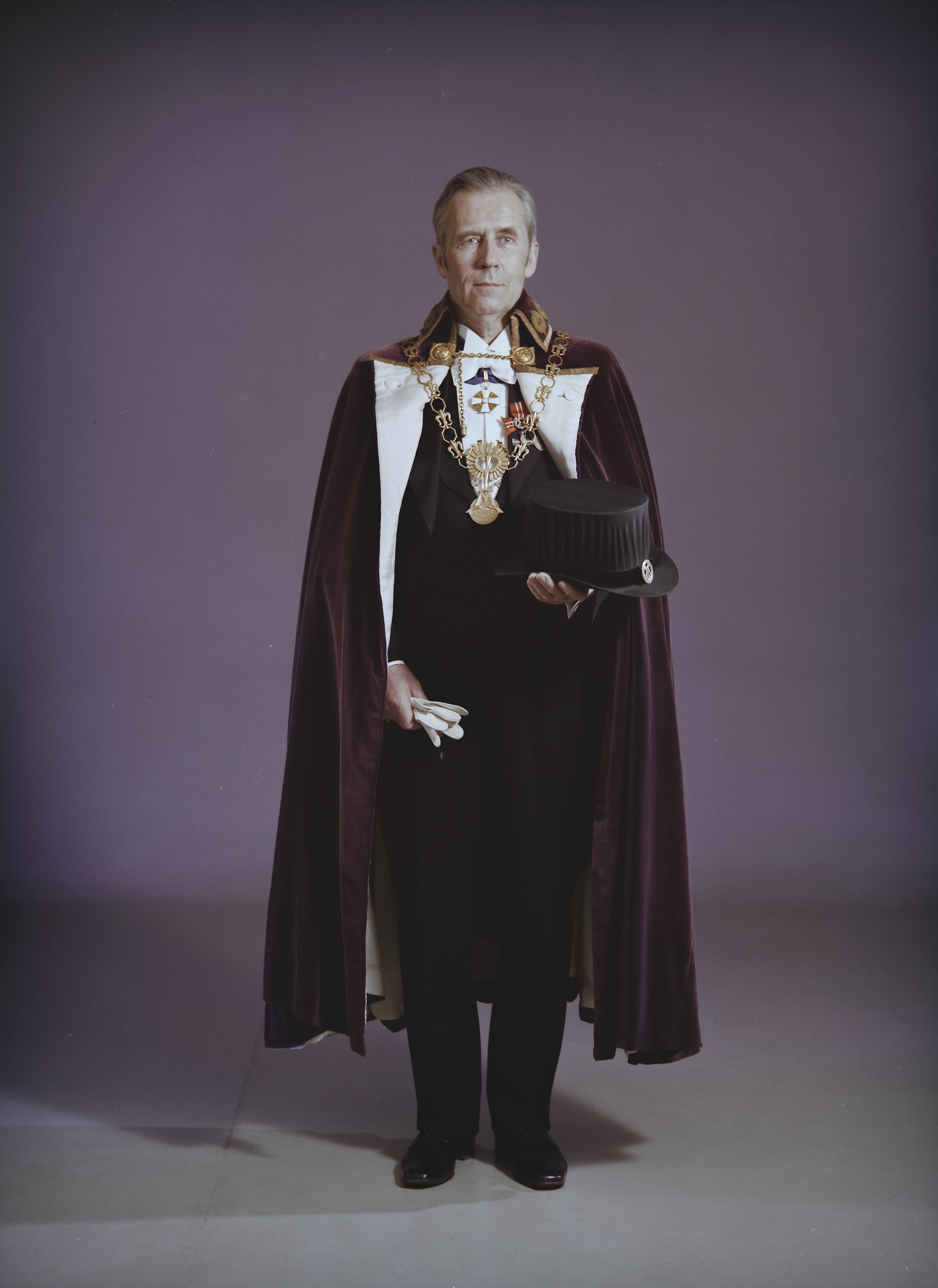 Photograph of the Finnish linguist Osmo Ikola (1918–2016) as the rector of the University of Turku.